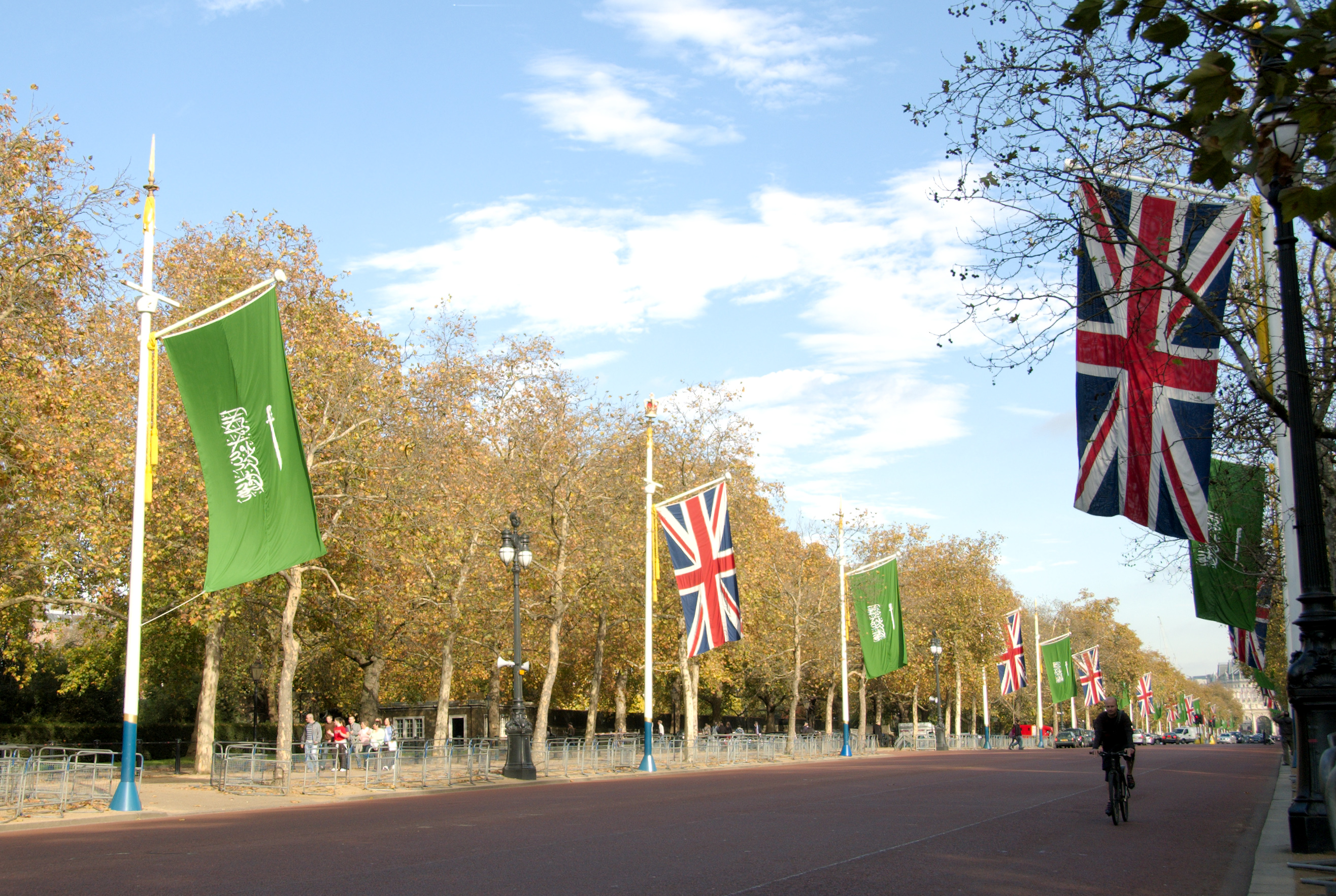 Saudi Arabian and British flags at the Mall/London for the state visit of King Abdullah.